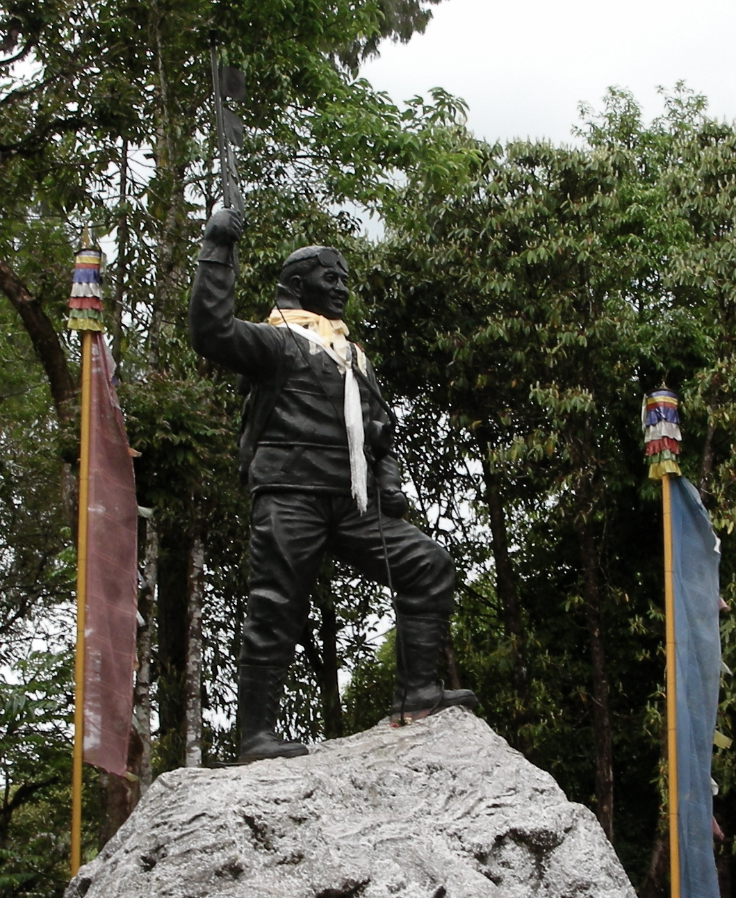 cropped by user:Pplecke version of Tenzing Norgay statue